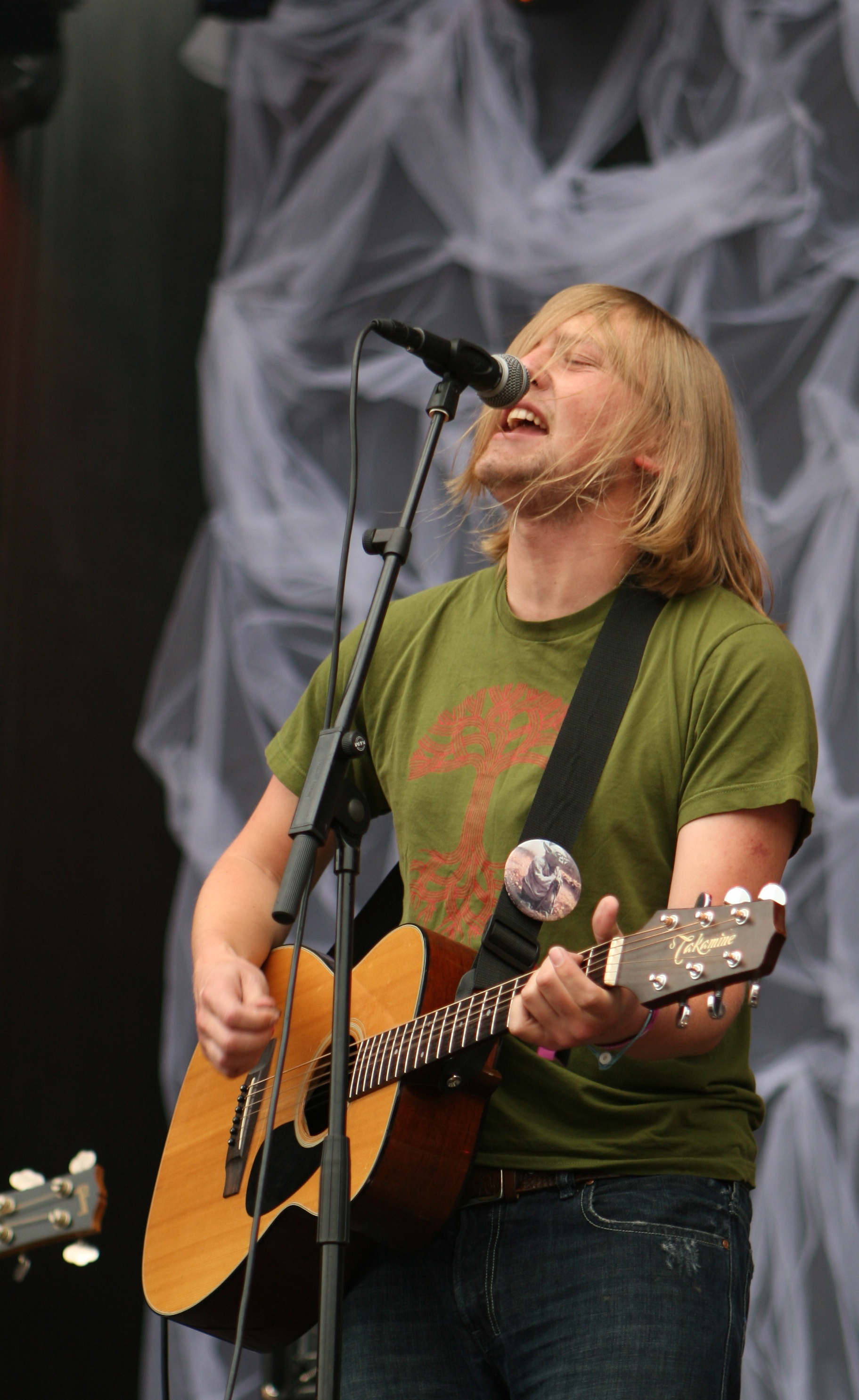 Port O'Brien en el Primavera Sound 2008